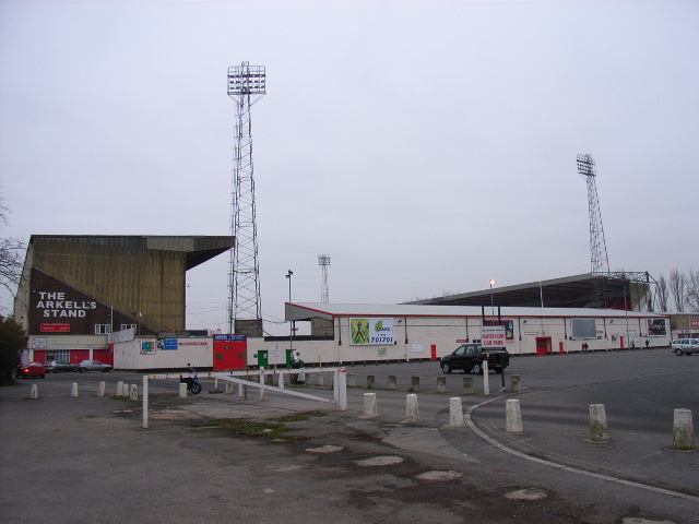 The County Ground Swindon The west end of the stadium, the home of Swindon Town FC.